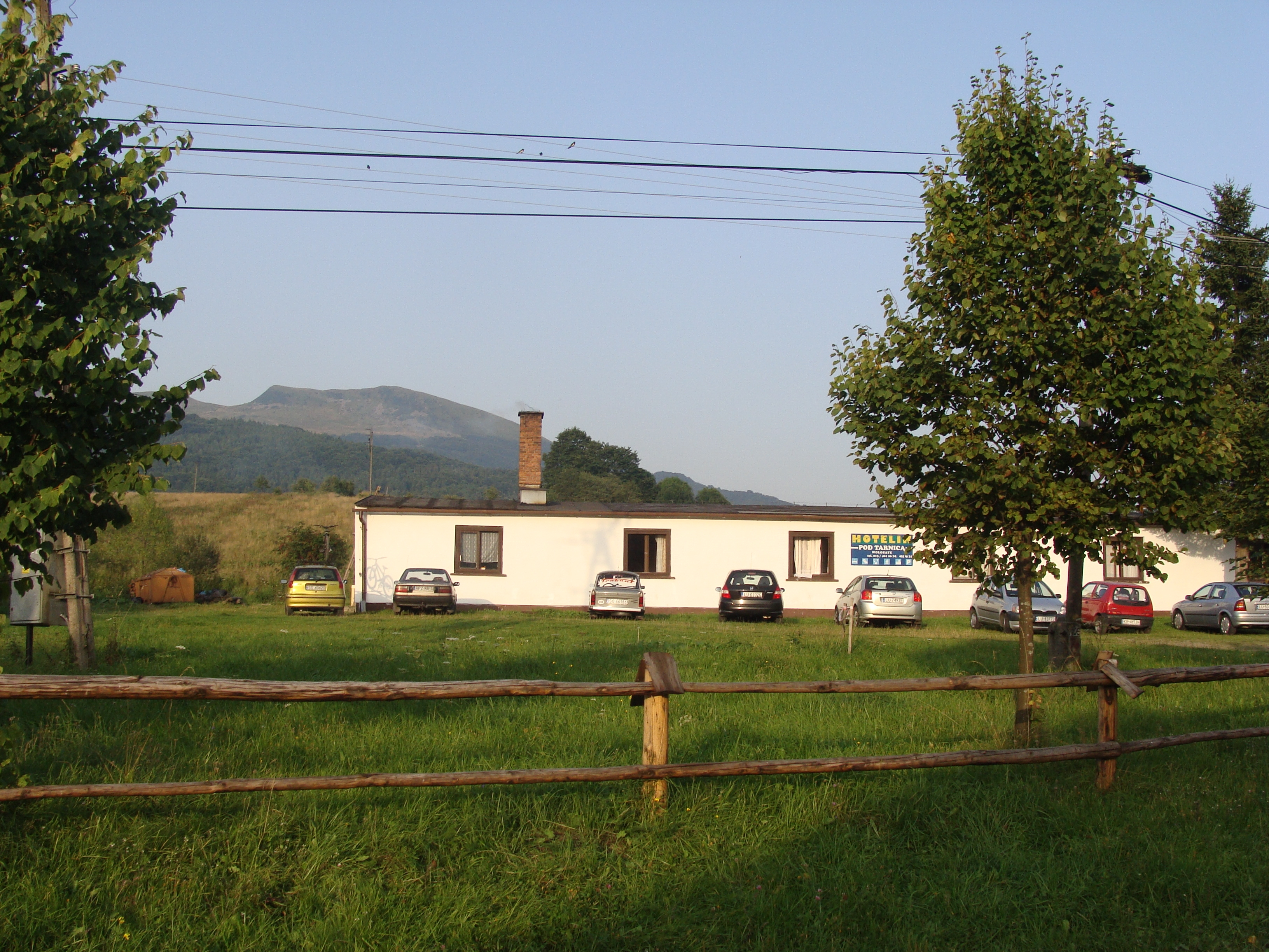 Village Wołosate, Inn "Pod Tarnicą", Tarnica peak in back. 2008